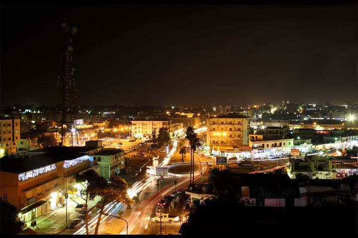 The field of e-old in in center of the city of Bayda, Libya.